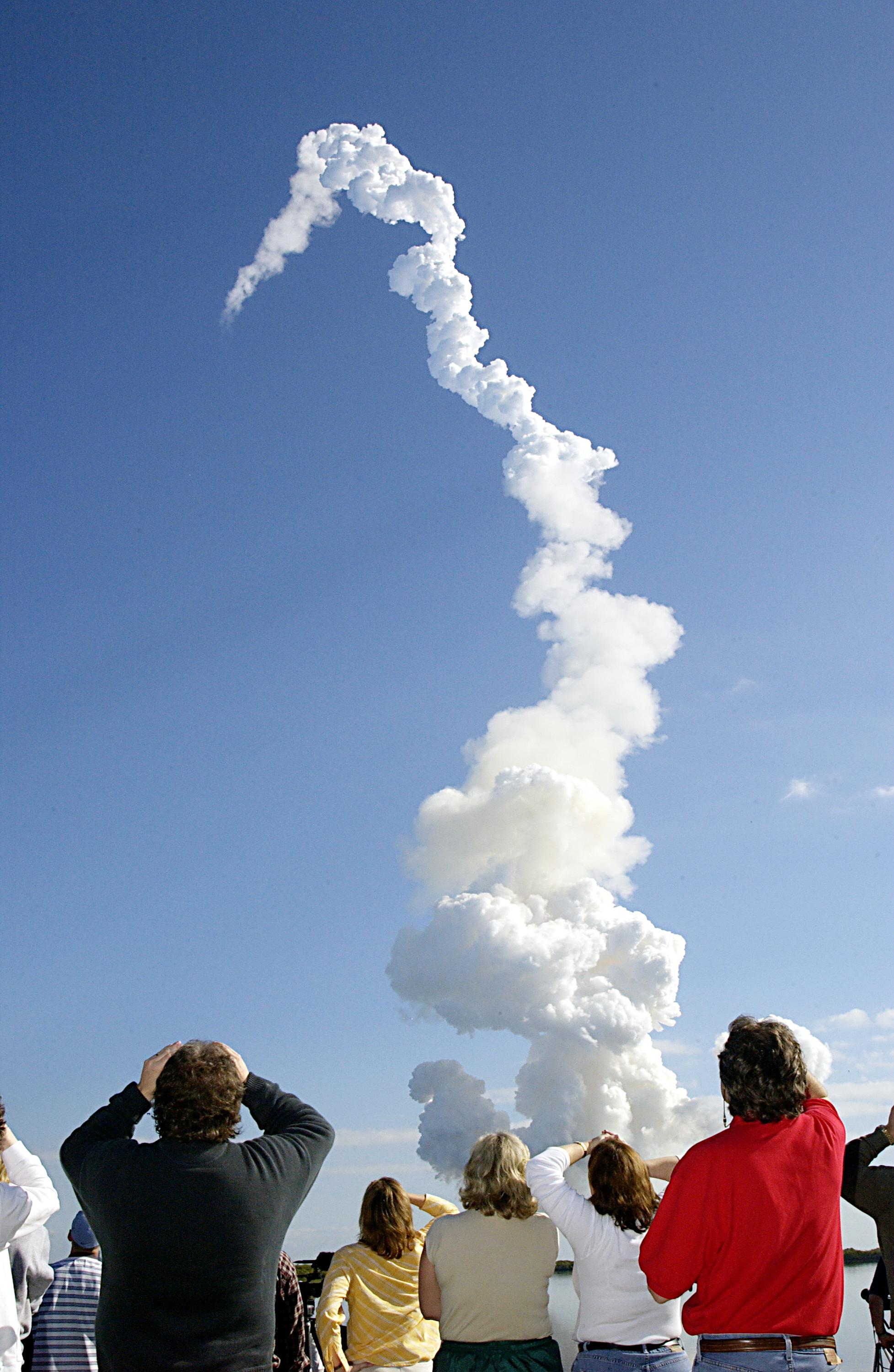 Launch of Space Shuttle Columbia on its last flight. Original description: After a perfect launch, spectators try to catch a last glimpse of Space Shuttle Columbia, barely visible at the top end of the twisted column of smoke. Following a flawless and uneventful countdown, liftoff occurred on-time at 10:39 a.m. EST. Headed for a 16-day research mission, Columbia's crew will be taking part in more than 80 experiment, including FREESTAR (Fast Reaction Experiments Enabling Science, Technology, Applications and Research) and the SHI Research Double Module (SHI/RDM), known as SPACEHAB. Experiments on the module range from material sciences to life sciences. This mission is the first Shuttle mission of 2003. Mission STS-107 is the 28th flight of the orbiter Columbia and the 113th flight overall in NASA's Space Shuttle program.